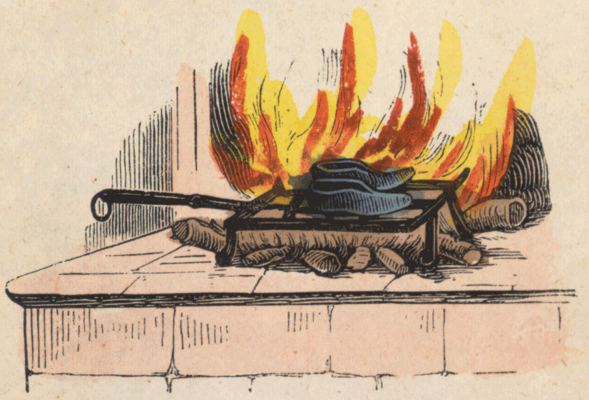 An illustration from page 31 of Mjallhvít (Snow White) an 1852 icelandic translation of the Grimm-version fairytale.